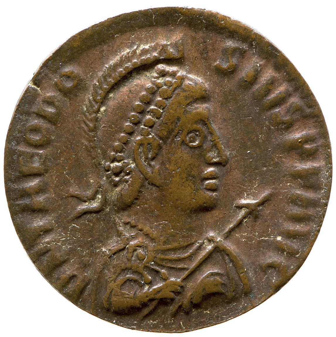 Obverse (front) of a nummus of Theodosius I Head right, helmeted, diademed, cuirassed, draped and holding spear and shield.